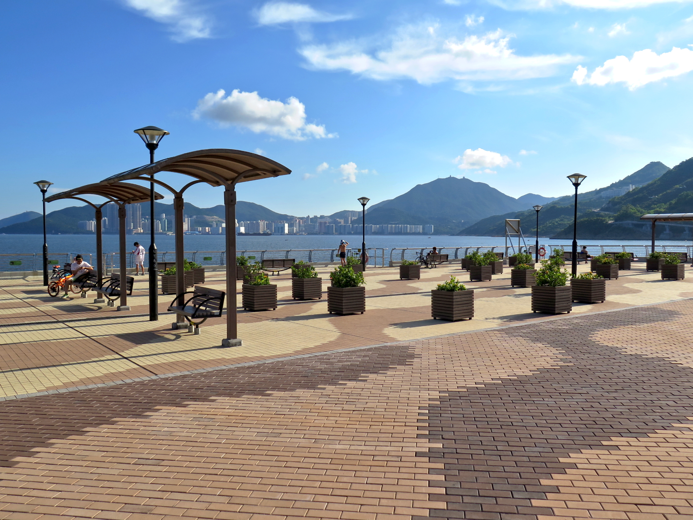 Tseung Kwan O Waterfront Promenade Viewing Platform